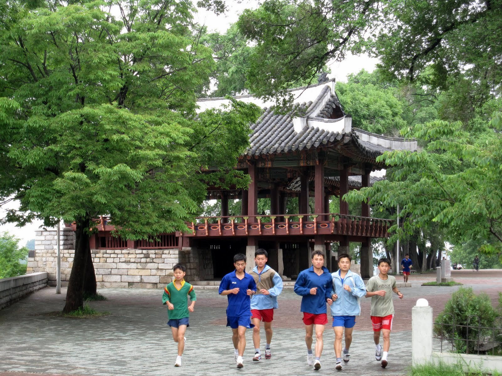 Out for a run along the Taedong River, 12th-century Ryongwang Pavilion behind